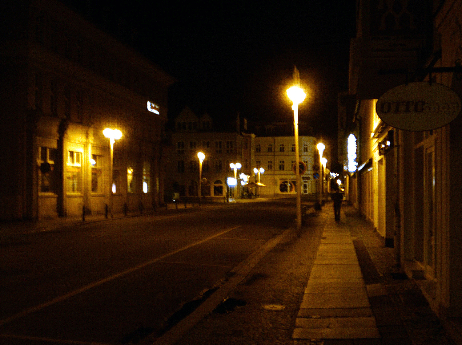 Berliner Straße, Finsterwalde, Niederlausitz, Brandenburg